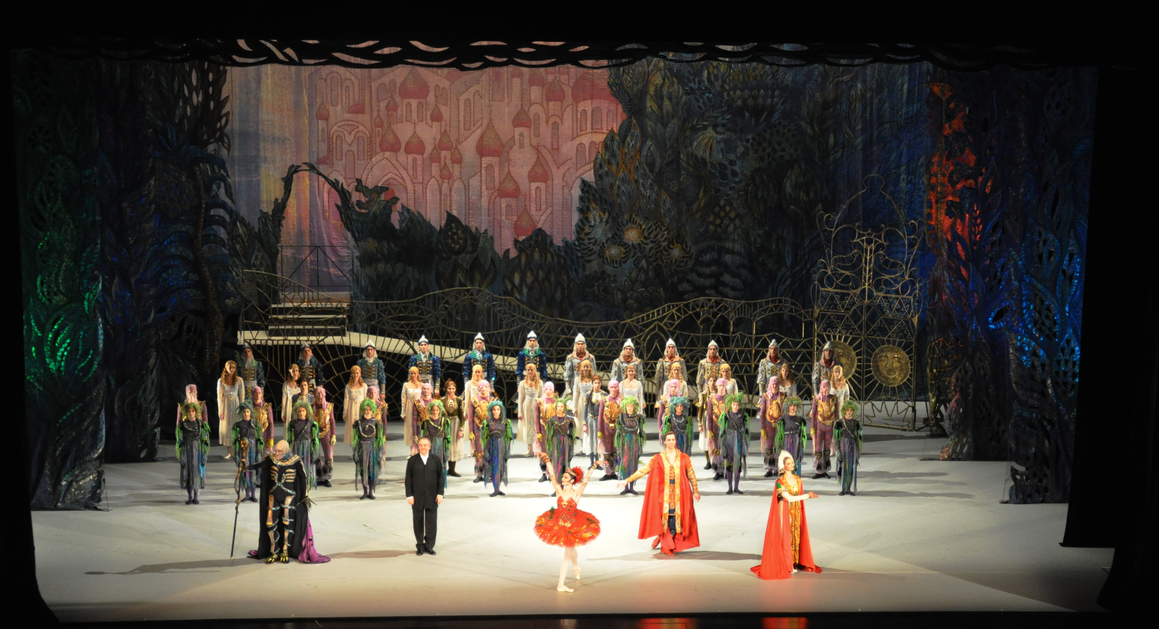 L'Oiseau de feu, reconstruction of the world premiere choreography and design. Choreography: Michel Fokin (1880–1942) Design: Alexander Golovin (1863–1930) and Leon Bakst (1866–1924) Shown at Salzburger Pfingstfestspiele 2013. Ballet of the Mariinsky Theatre, Saint Petersburg. Alexandra Iosifidi as Firebird Alexander Romanchikov as Prince Ivan Ekaterina Mikhailovtseva as Princess Soslan Kulaev as Kastchei Conductor (here seen on stage during the applause): Valery Gergiev